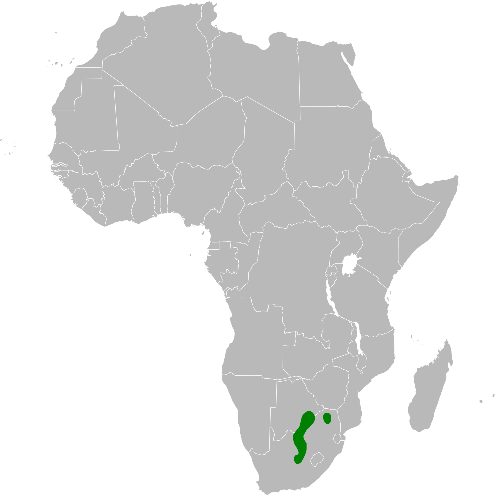 Certhilauda chuana distribution map; using Blank Map-Africa.svg, based on